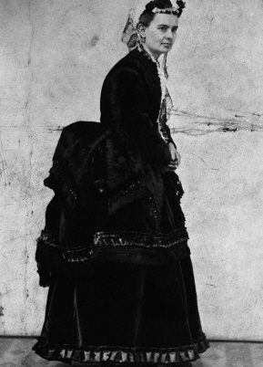 Ellen Lewis Herndon Arthur (1837-1880). Date:1875 circa 5 years